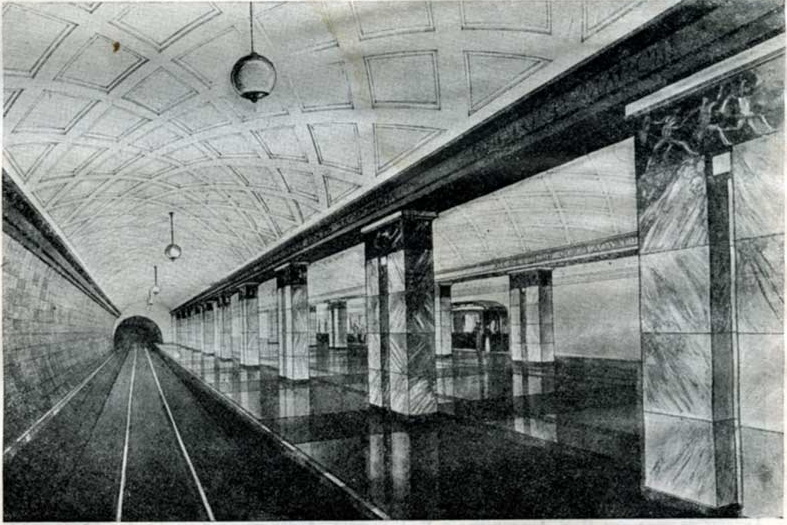 Project of "Dinamo" metro station. (Moscow metro)